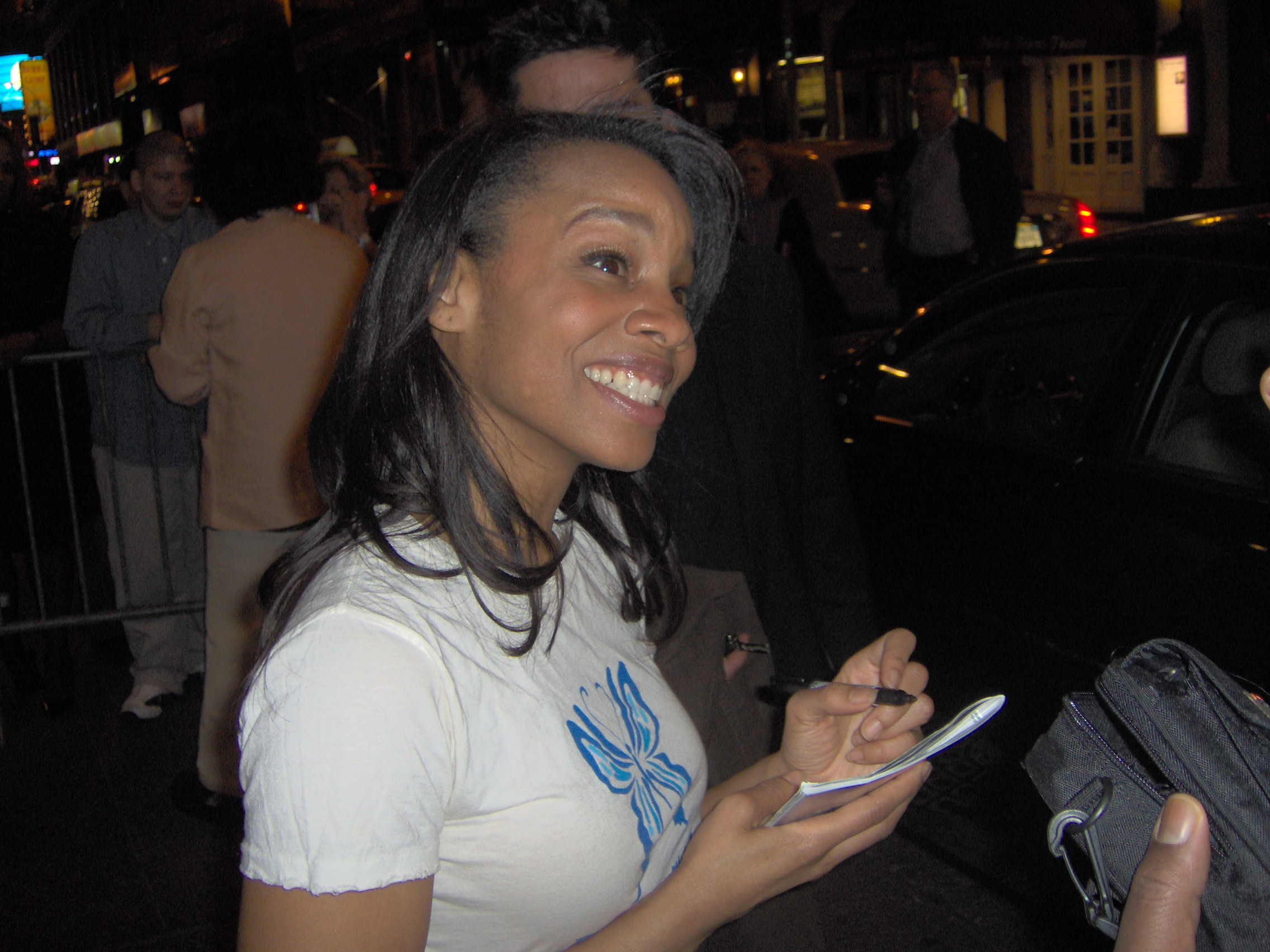 Anika Noni Rose meeting fans after a performance of Cat on a Hot Tin Roof in New York City on 7 May 2008, taken by Chaz Allen Should appear in article "Akina Noni Rose"